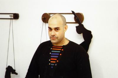 Photograph